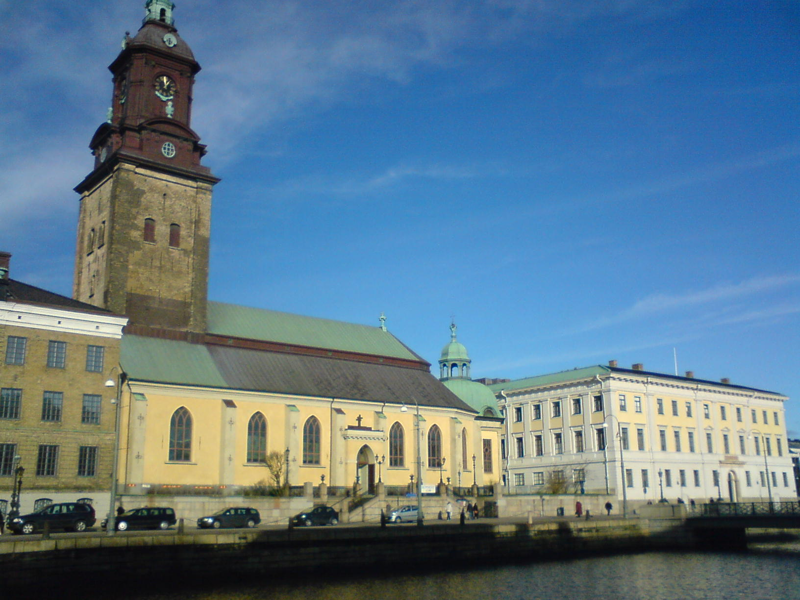 The church Tyska kyrkan from the south with the town hall (or Guild hall) next to it to the right, in